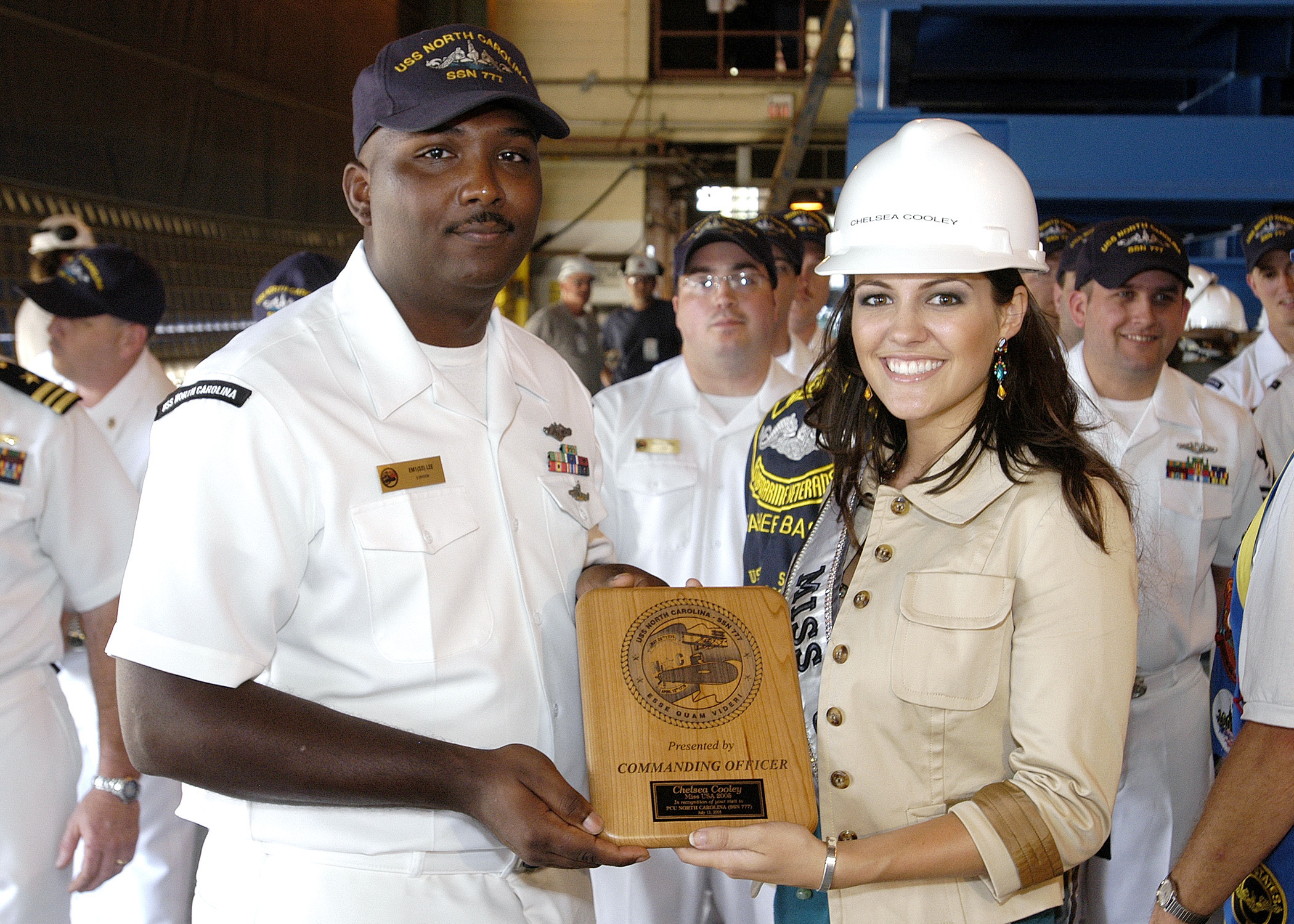 Miss USA 2005 Chelsea Cooley receives a plaque from EM1(SS) Tirrelle Lee, Senior Sailor of the Year, Pre-Commissioning Unit North Carolina (SSN 777), commemorating her visit on 13 July at Northrop Grumman Newport News shipyard. The North Carolina native recieved a tour of the facilities where the submarine is currently under construction, as well as a tour of PCU Texas (SSN 775). Miss USA signed autographs for both Sailors and shipyard workers. North Carolina is the fourth Virginia-Class submarine and was scheduled to join the fleet in 2008.